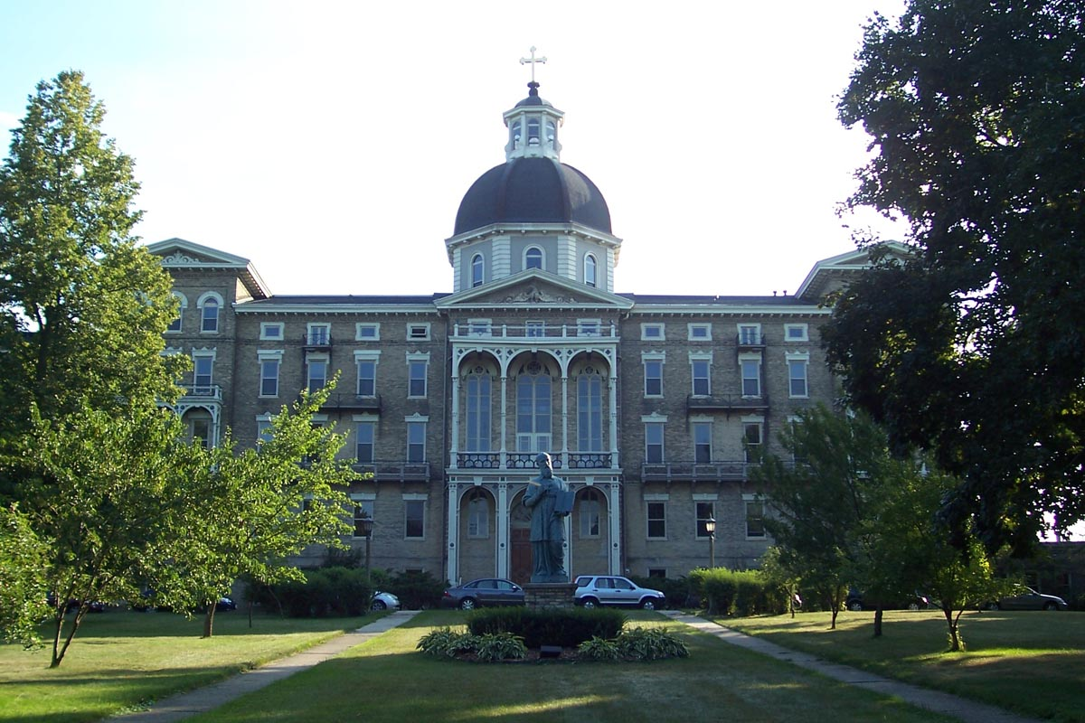 Copyright © 2005 Sulfur Henni Hall, main building of the St. Francis Seminary in St. Francis, Wisconsin. It was named after Bishop John Martin Henni and dedicated on January 29, 1856.